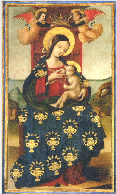 Our Lady of Custonaci, follower of Antonello da Messina (Italian, Sicilian, late 15th-early 16th century)